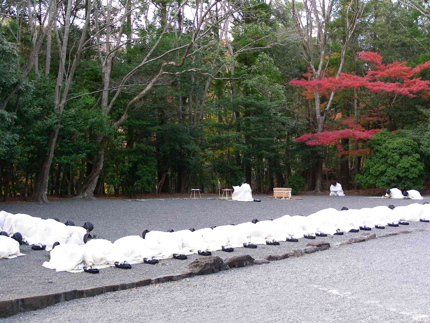 Oharai is a purification ceremony for all the staff of Ise Shrine, at Kotaijingu, Ise city, Mie prefecture, Japan.